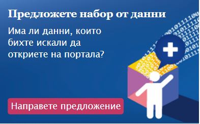 Screenshot from EUODP